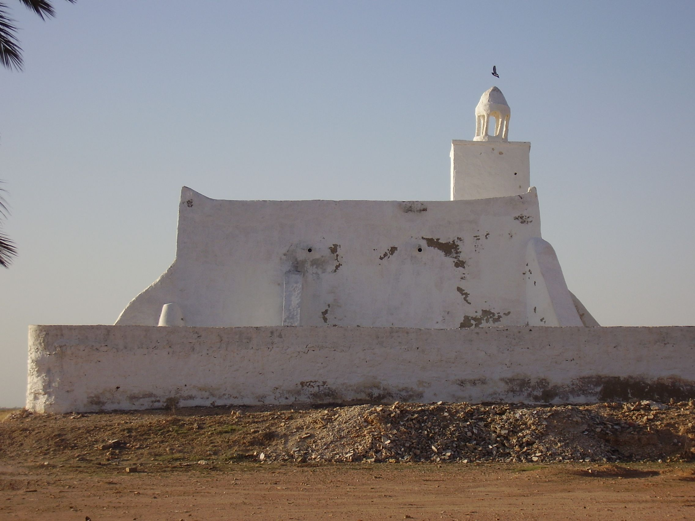 The Mosque of Guellala - Jerba - Tunisia ("Tamezgida n Iqellalen" in Berber language)